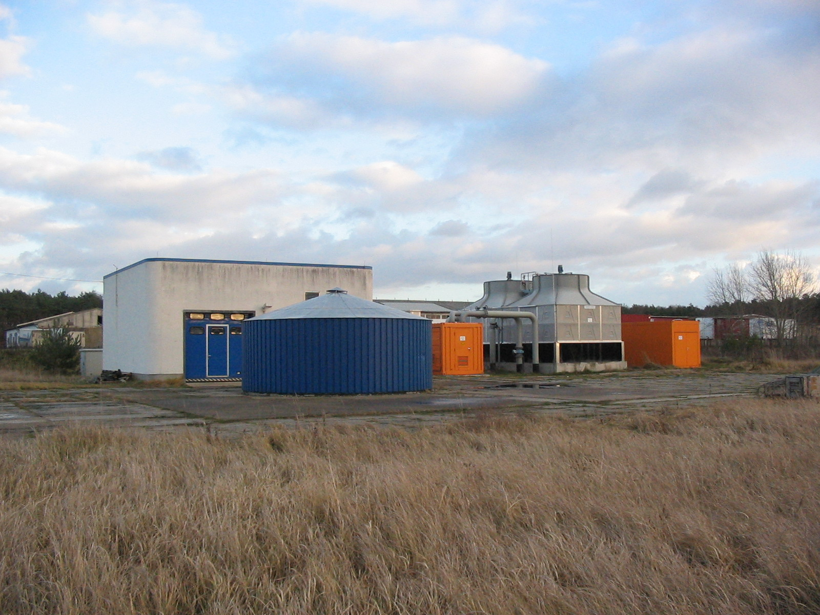 Geothermal power plant in Neustadt-Glewe, Mecklenburg-Vorpommern, Germany